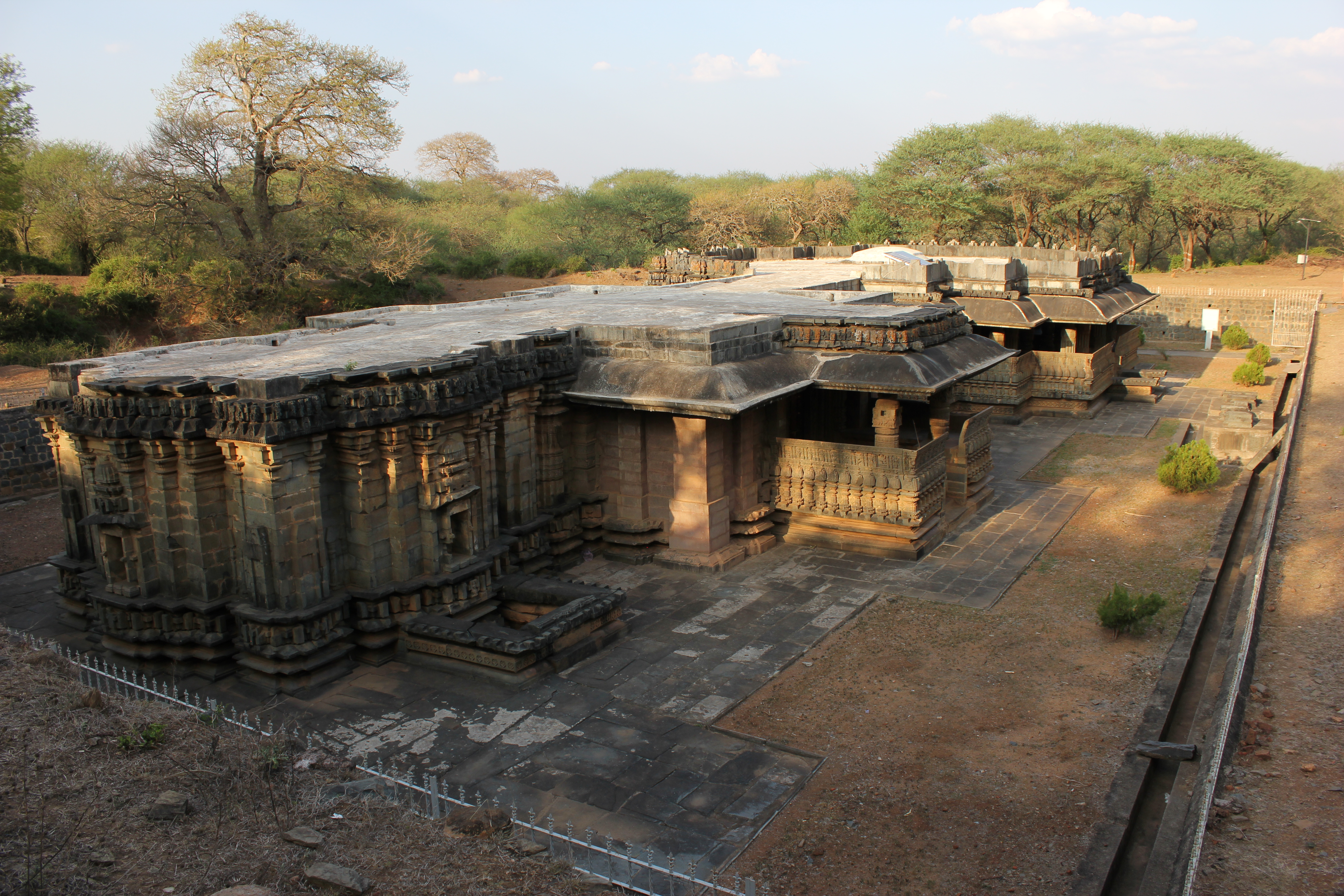 The Nagareshvara temple (also called Aravattu Kambada Gudi literally meaning "60 pillared temple") was built by the Kalyani (western) Chalukyas in the late 11th century - early 12th century AD during the rule of King Vikramaditya VI. Bankapura is a town located in the Haveri district of the Karnataka state, India.